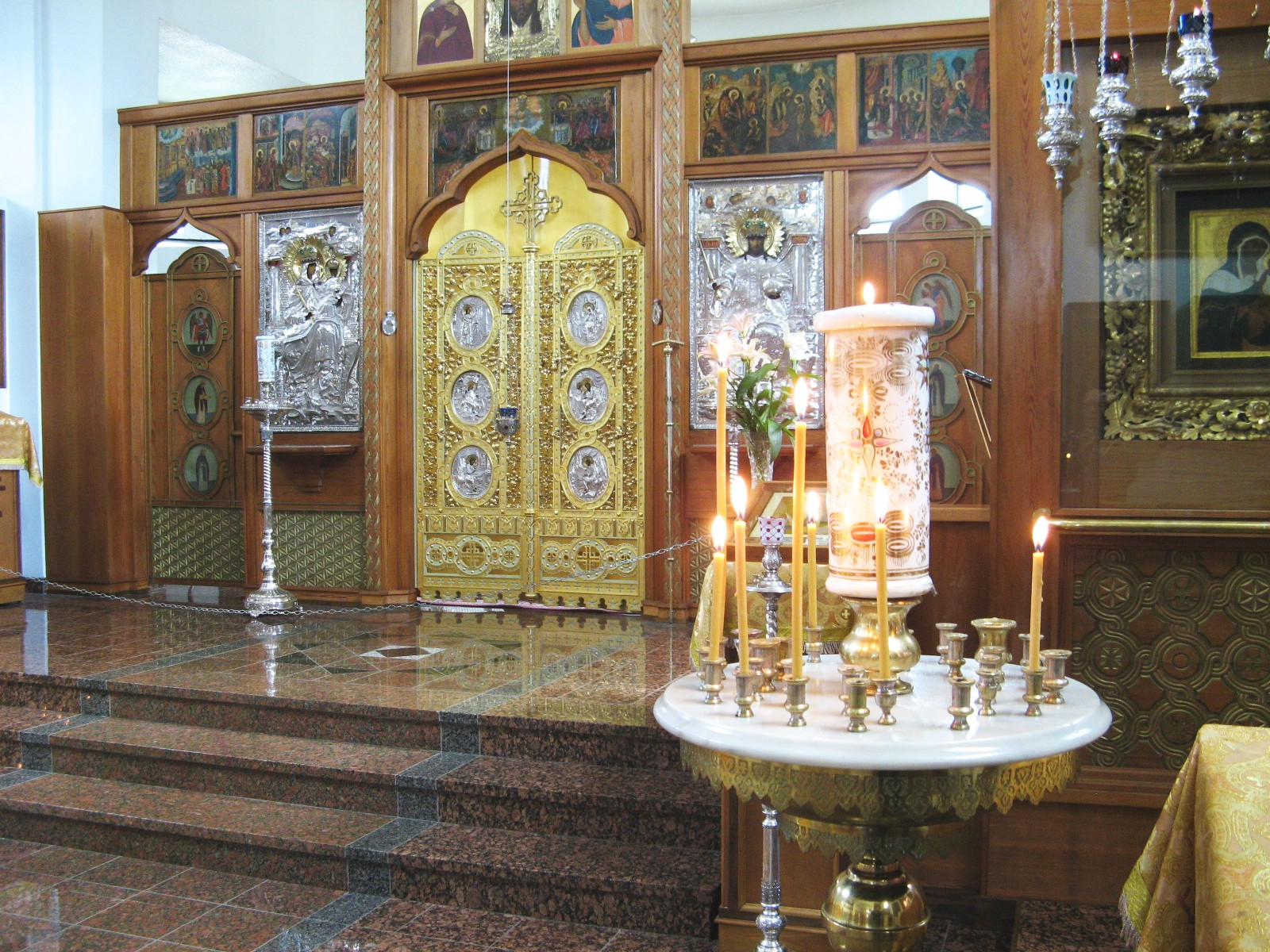 Iconostase of the Main church of New Valamo Monastery in Heinävesi, Finland